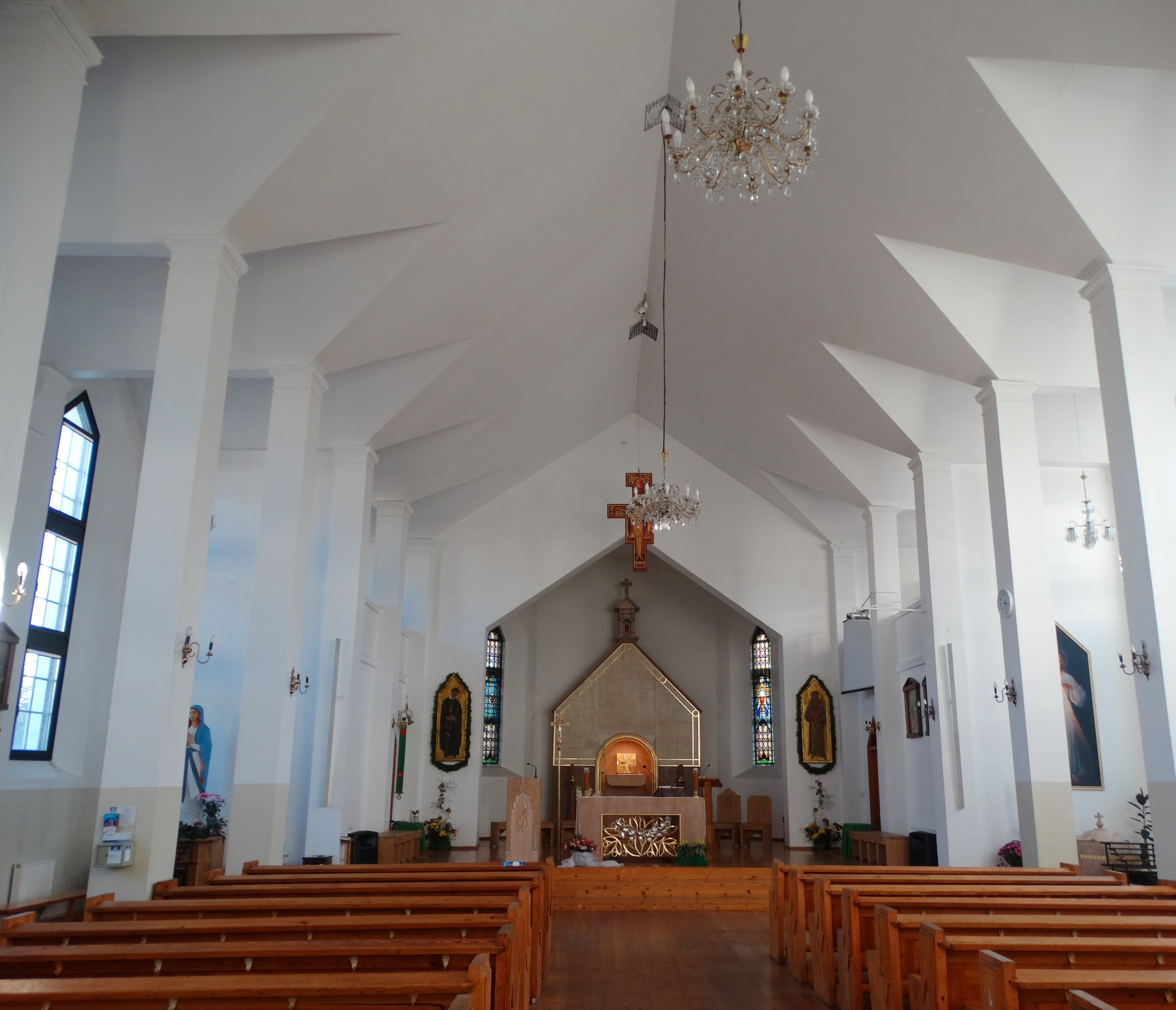 Church of Saint Vincent de Paul, Petrašiūnai, Kaunas